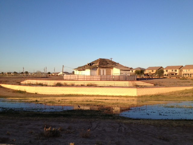 The Sachs-Webster House — on the Sachs-Webster Farmstead in Laveen, Phoenix area, Arizona. It is a Sears Catalog mail order kit Sears Modern Homes (sold 1908-1940), and built by the original settlers of Laveen.